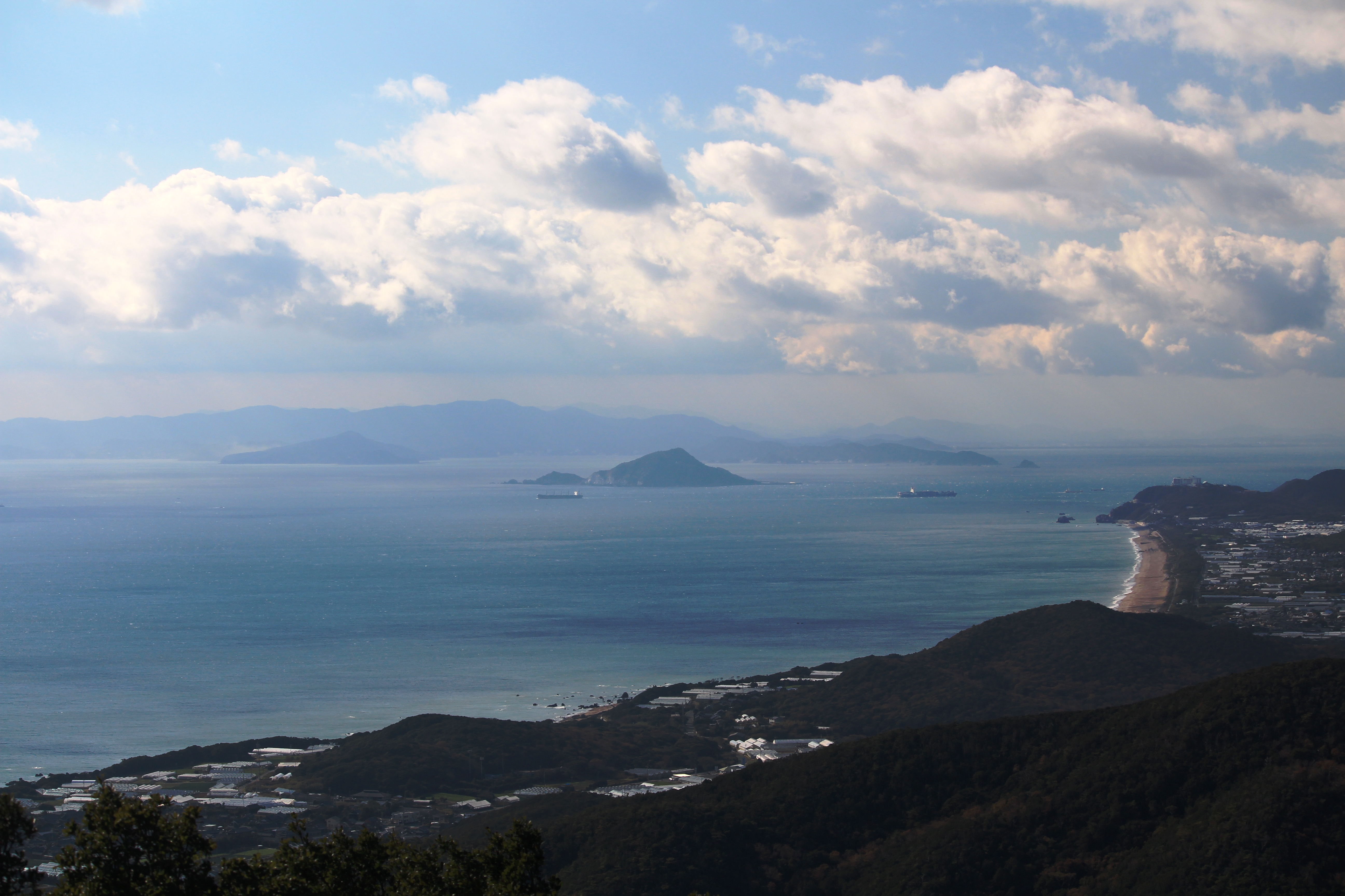 Kami Island seen from Mount Ō, in Tahara, Aichi prefecture, Japan.